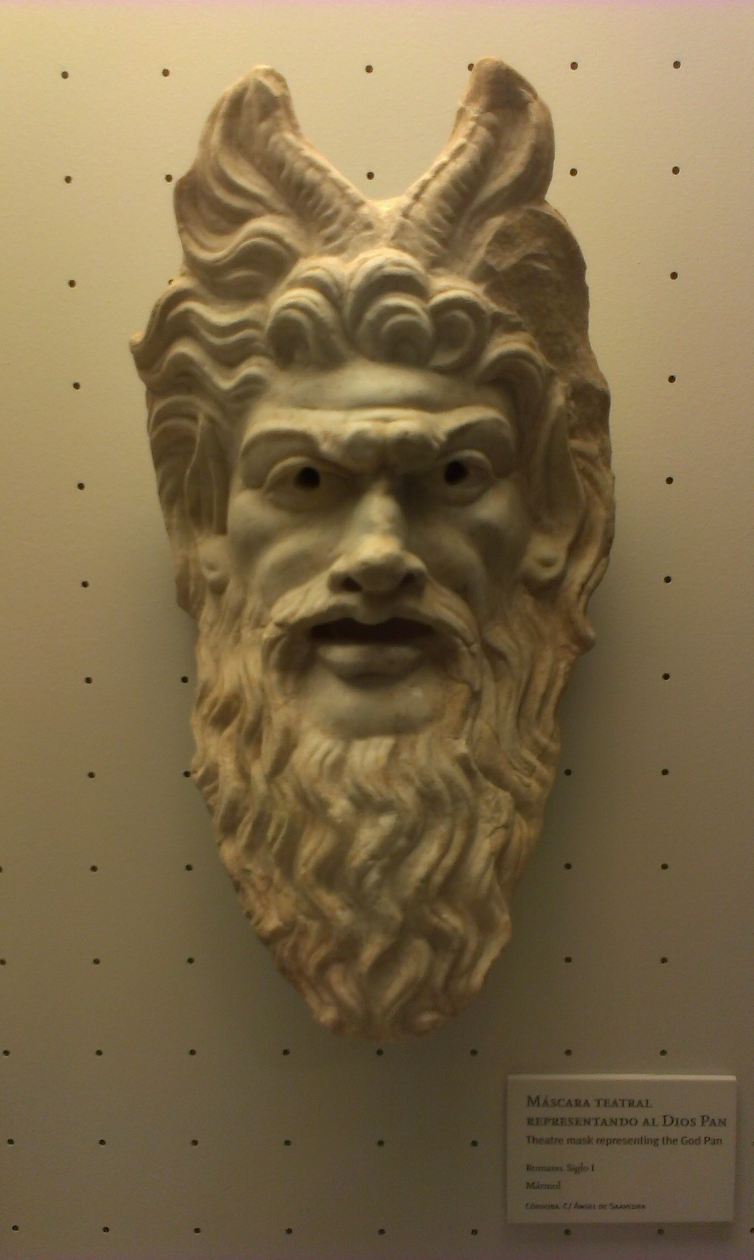 Theatre mask representing the God Pan. Archeological Museum of Córdoba, Spain.